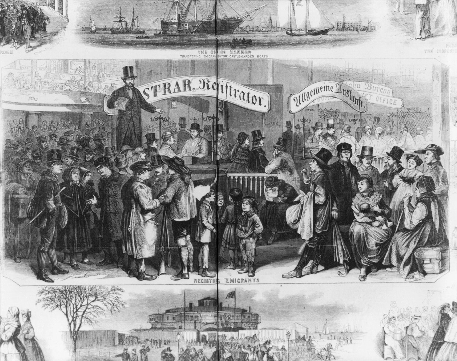 Immigrants at Castle Garden, New York City, 1866. Wood engraving in "Frank Leslie's Illustrated Newspaper", 20 January 1866, vol. 21, p. 280-281.